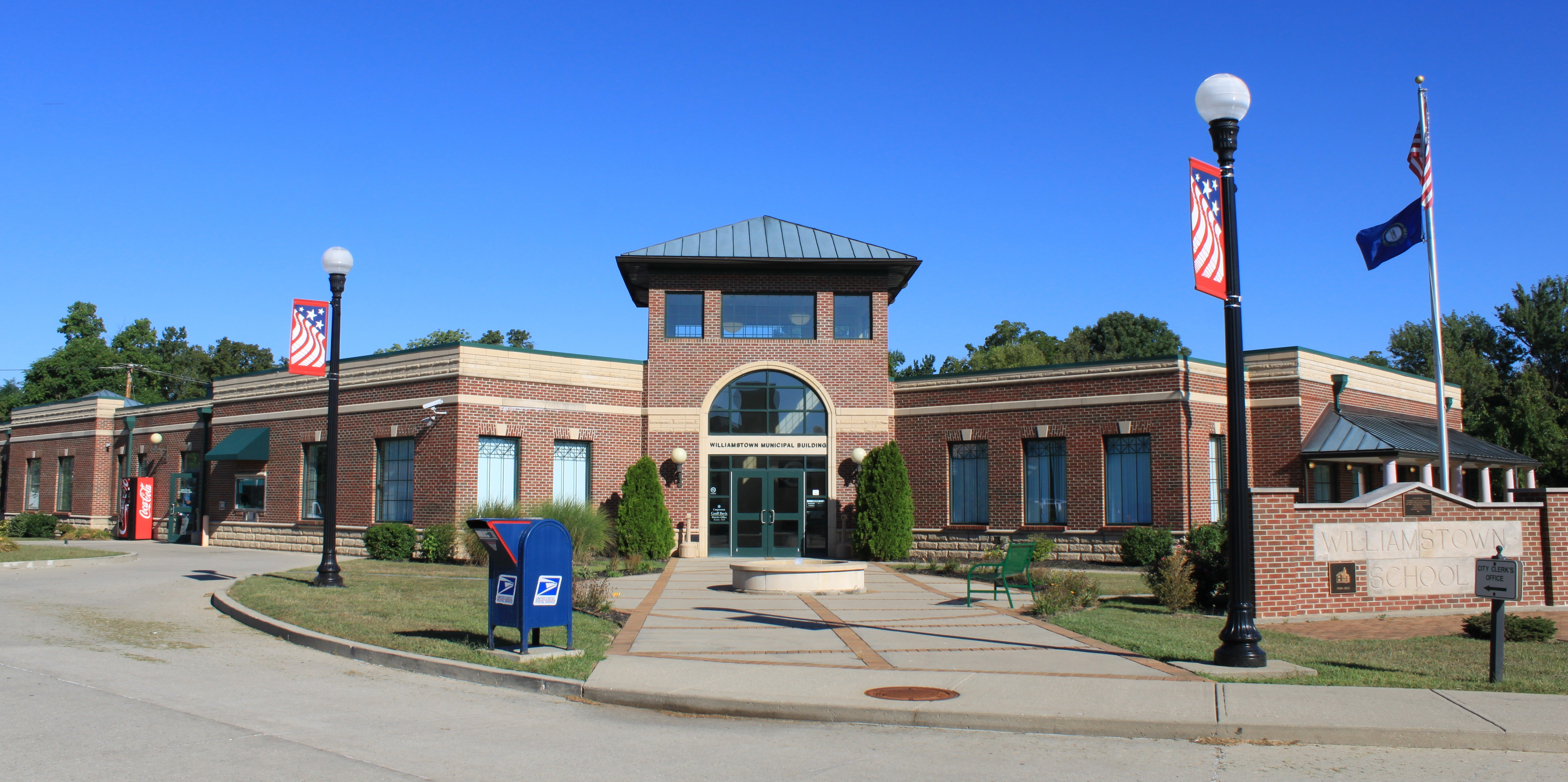 Williamstown Kentucky Municipal Building, 400 North Main Street